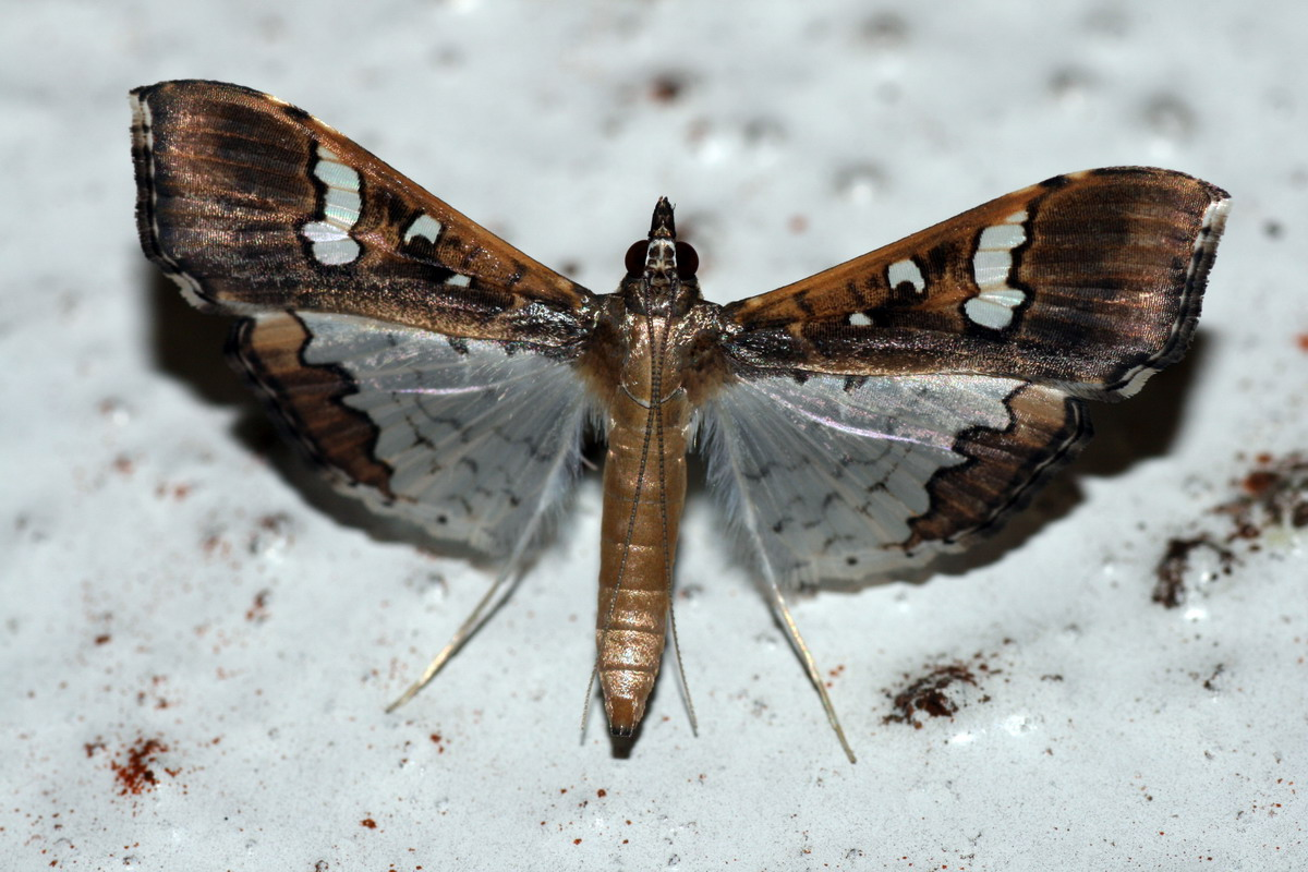 Malaysia, Fraser's Hill, March 2009